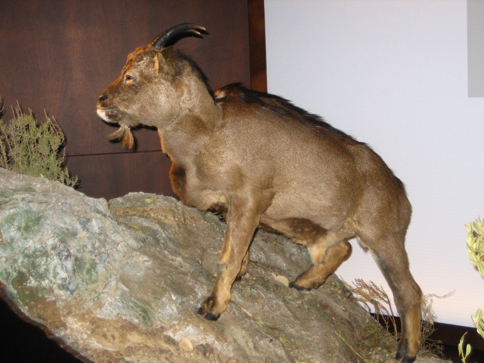 Reconstruction of Myotragus balearicus at CosmoCaixa, Barcelona